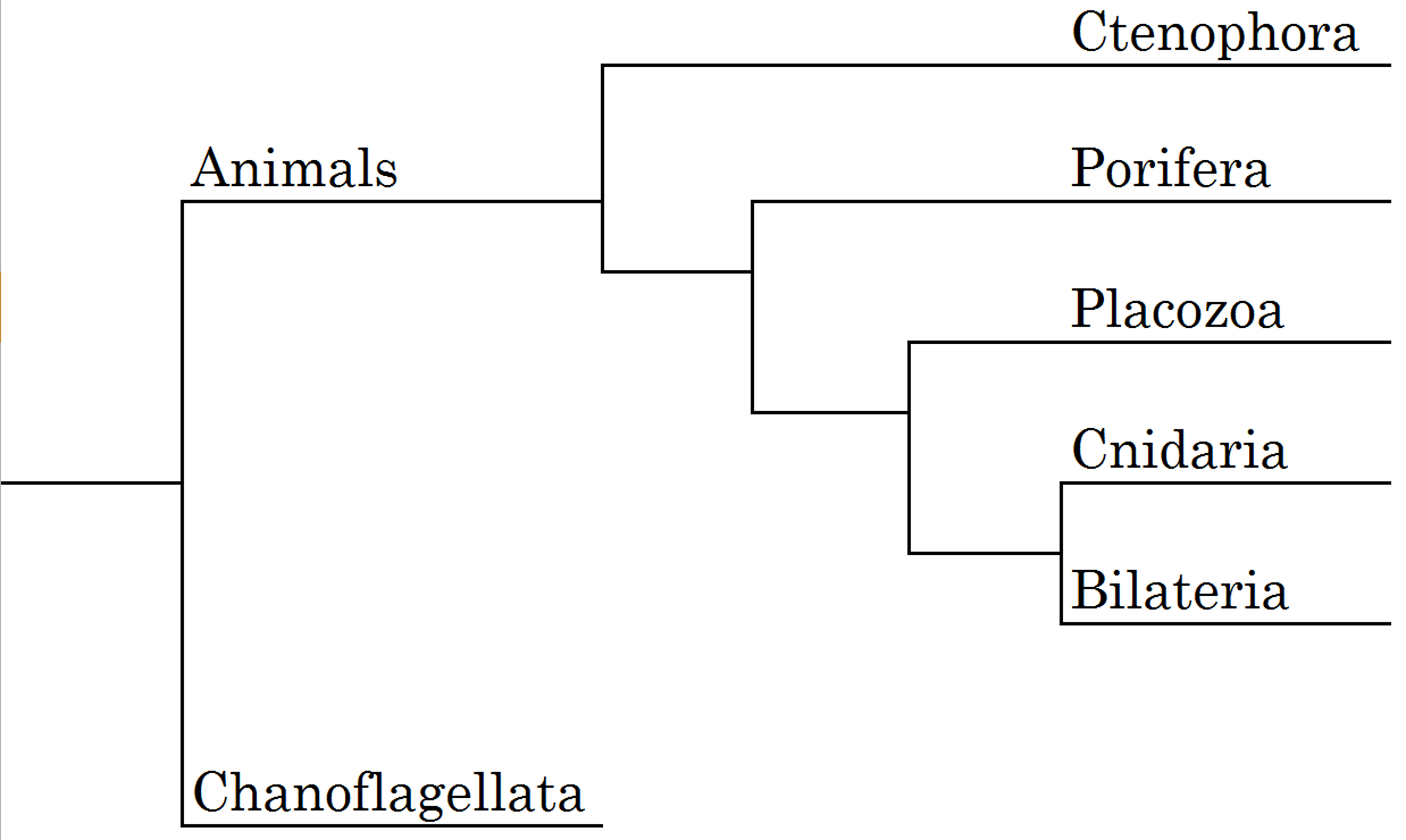 This is the cladogram of the animals, as shown by two papers: one published in Science in Dec 2013, and the other published in Nature in June 2014.